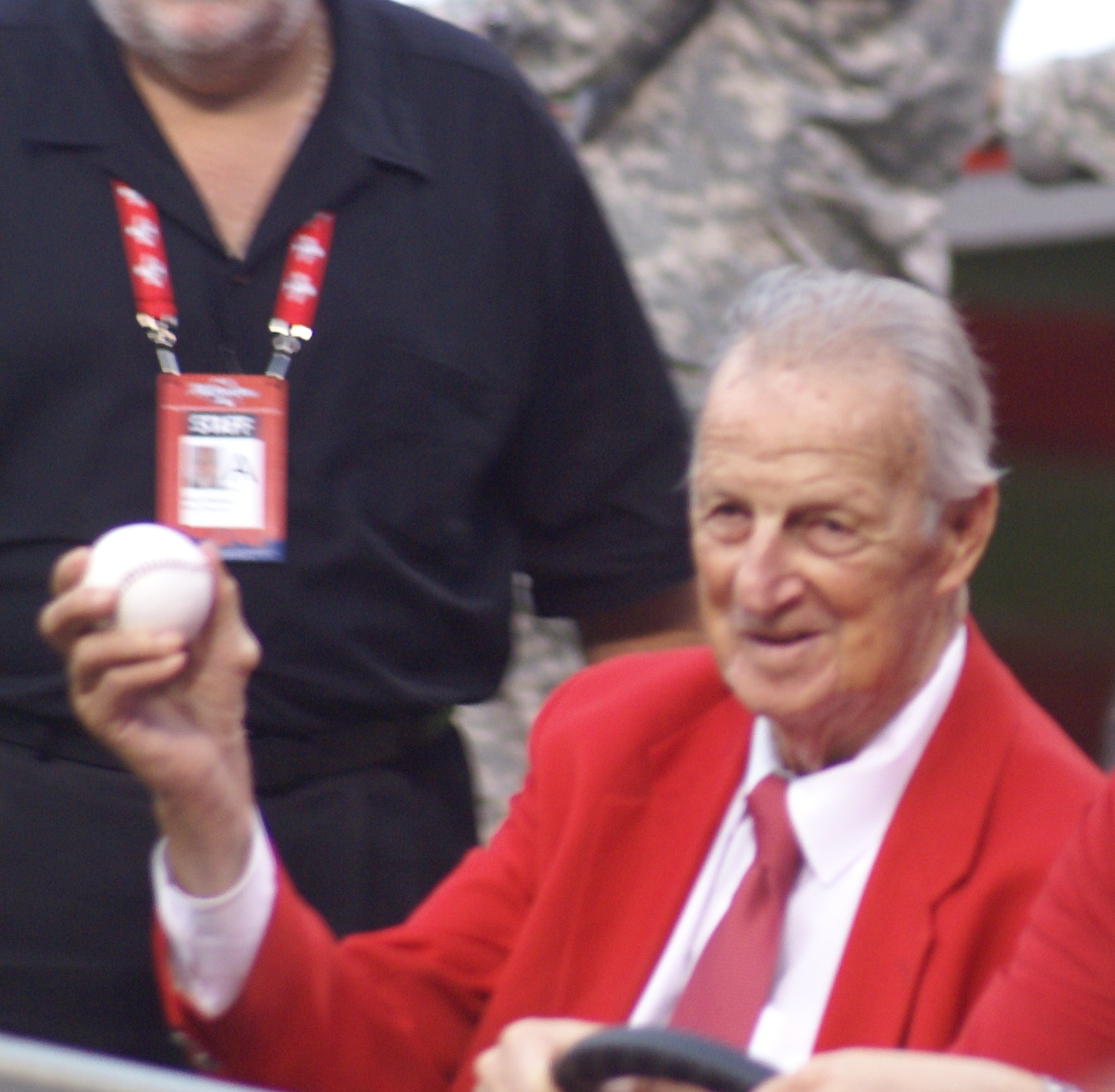 Stan Musial with the 2009 Major League Baseball All-Star Game